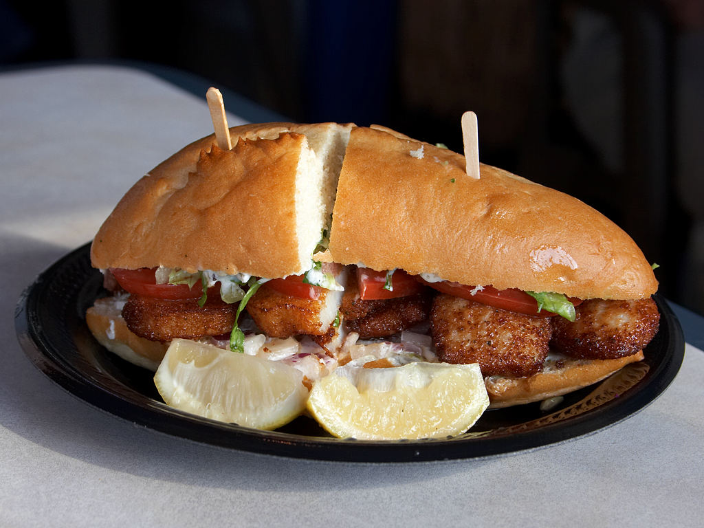 Scallop Sandwich served in San Diego. Photographer: Jon Sullivan